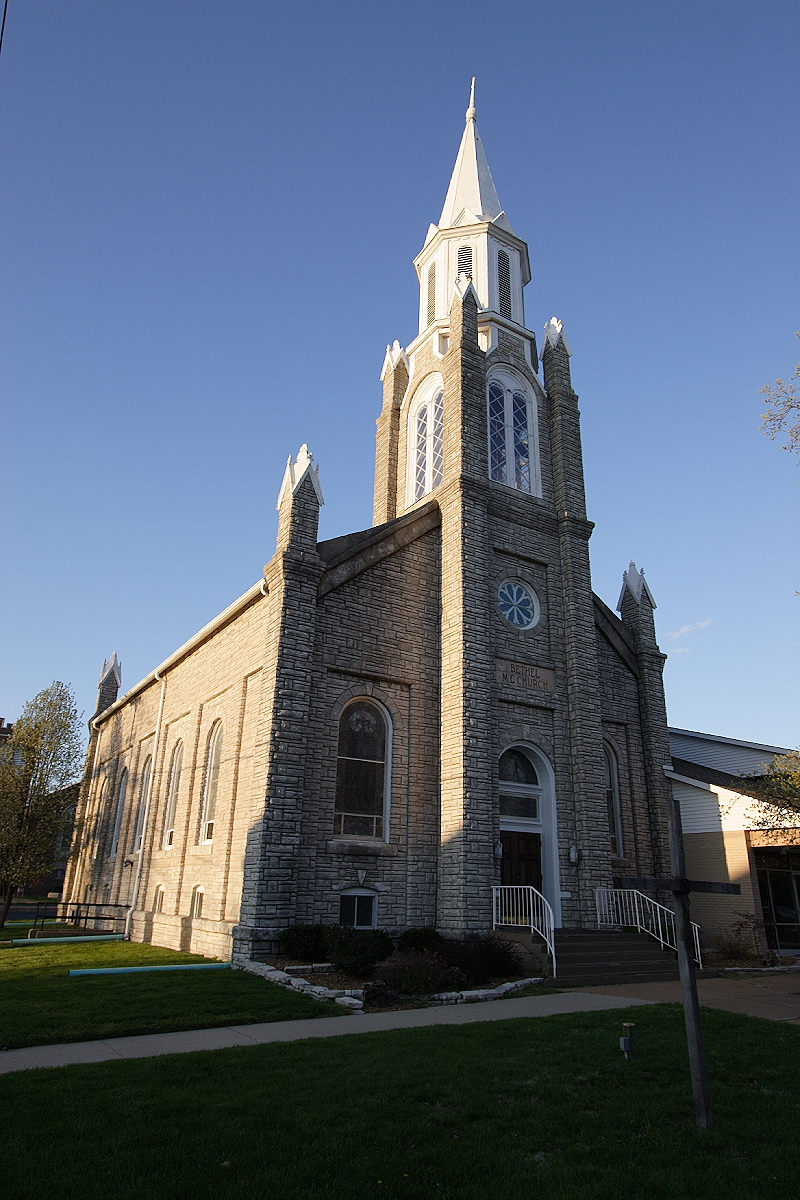 Bethel UMC, Mascoutah, Illinois, 2006. Robert Lawton (self)